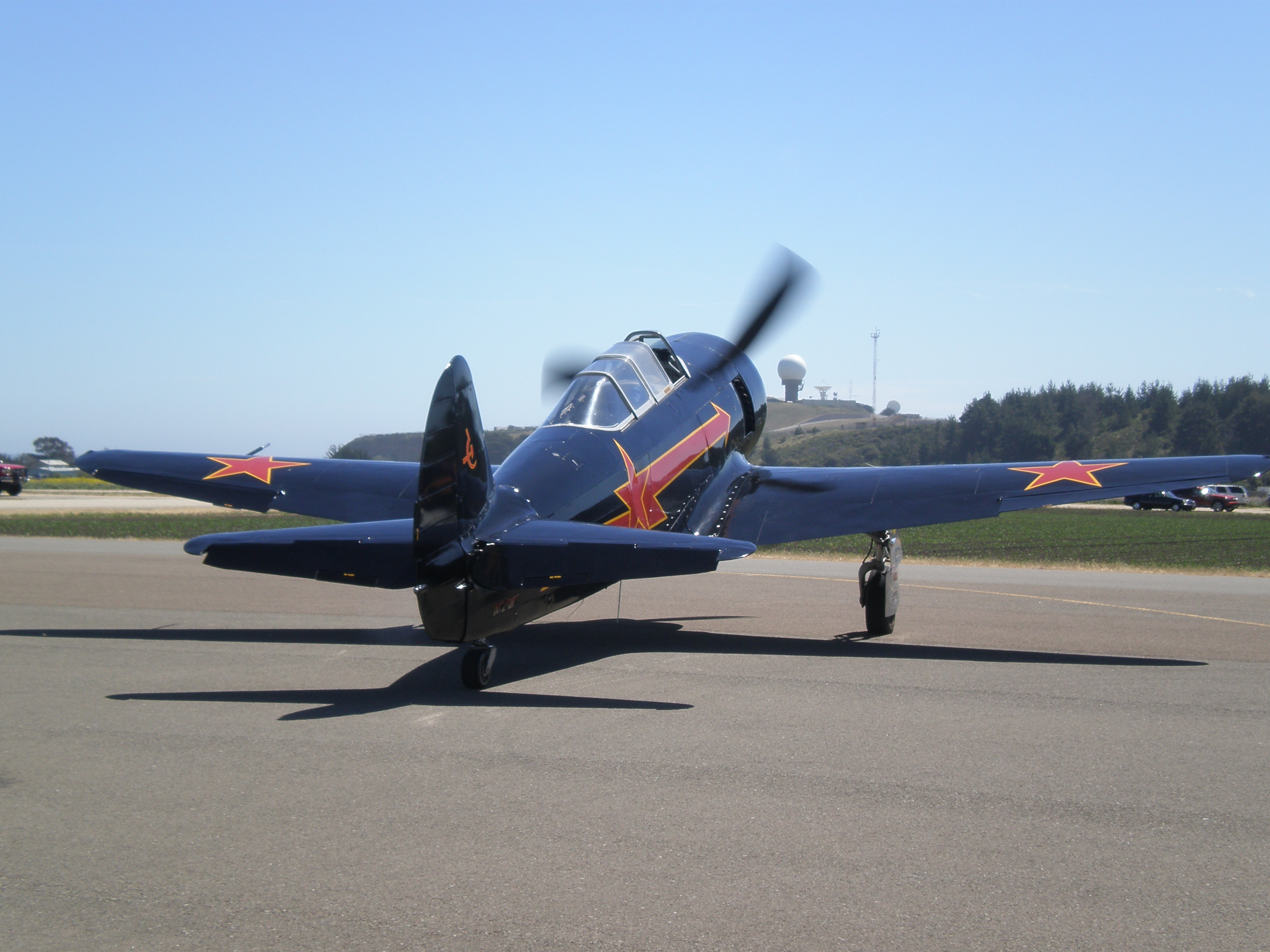 A Yakovlev Yak-11 C-11 taxis taxis to the flight line at the Pacific Coast Dream Machines vehicle show at the Half Moon Bay Airport in Half Moon Bay, California.